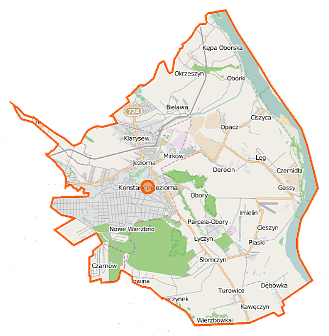 Map of Gmina Konstancin-Jeziorna, Poland This map of Konstancin-Jeziorna (gmina) was created from OpenStreetMap project data, collected by the community. This map may be incomplete, and may contain errors. Don't rely solely on it for navigation. Border coordinates52.148221.0378←↕→21.222852.0318